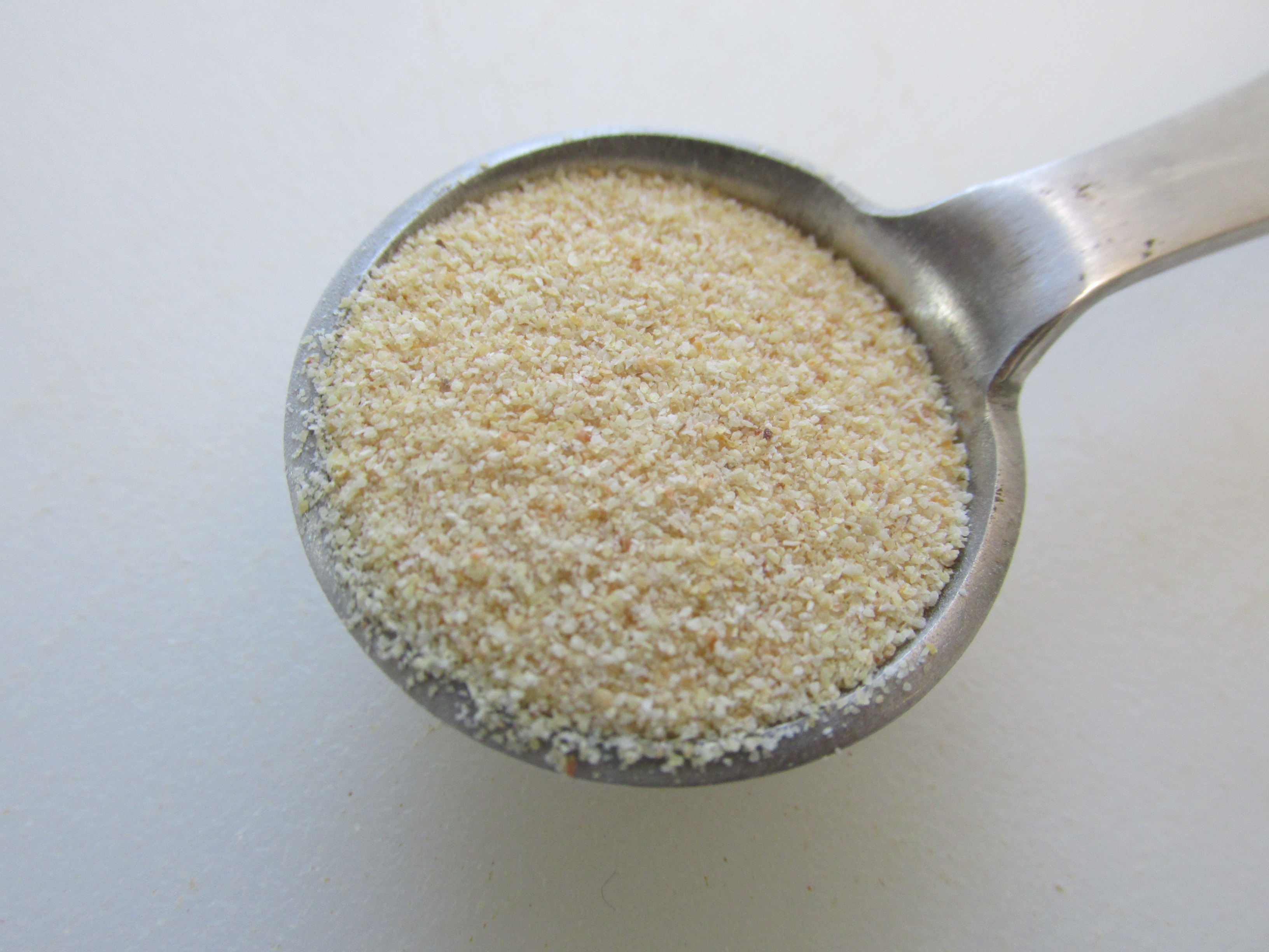 Garlic Powder, Penzeys Spices, Arlington Heights Massachusetts